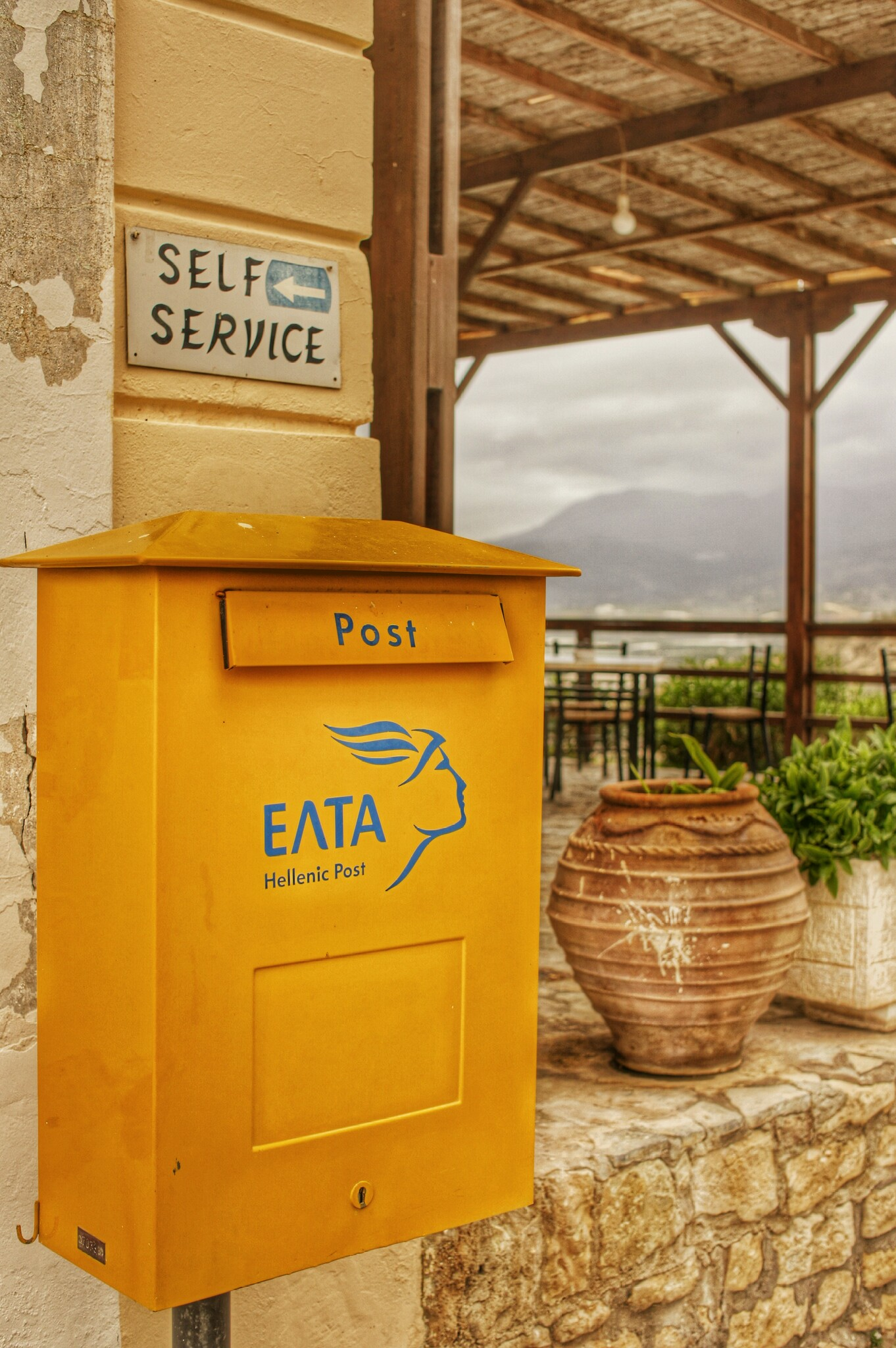 Hellenic post at Phaistos ;-)